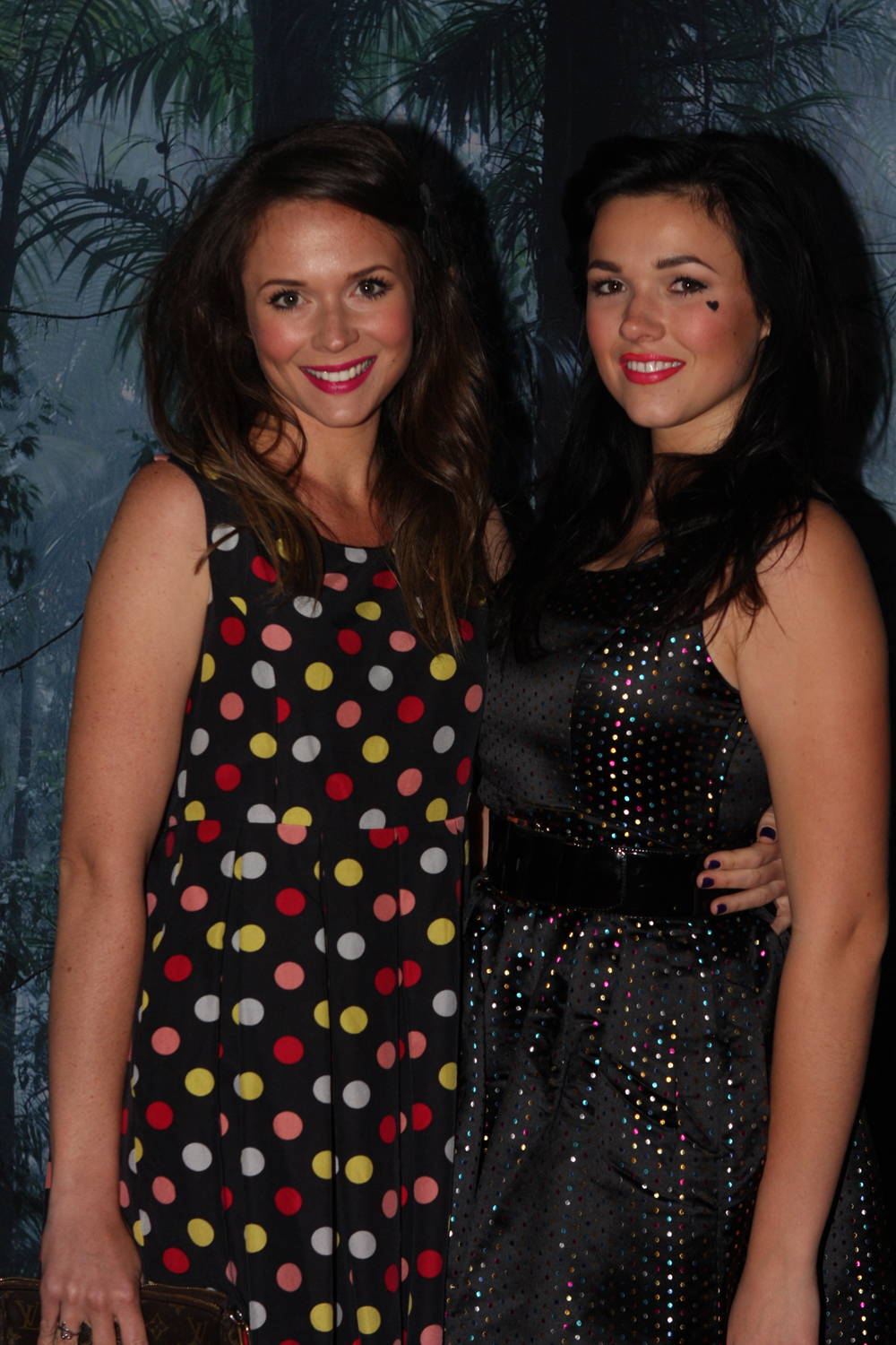 Brooke Harman (l) and Demi Harman (r) at Cirque du Soleil's "OVO" Opening Night in Sydney 2012